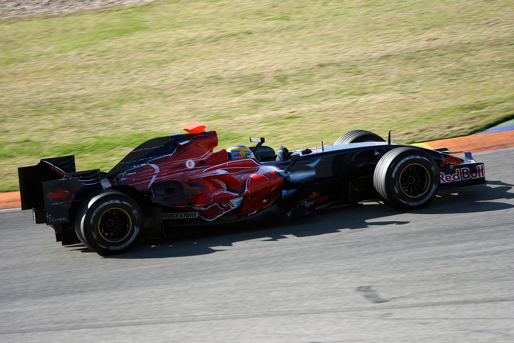 Sébastien Bourdais testing for Scuderia Toro Rosso at Valencia in January 2008.